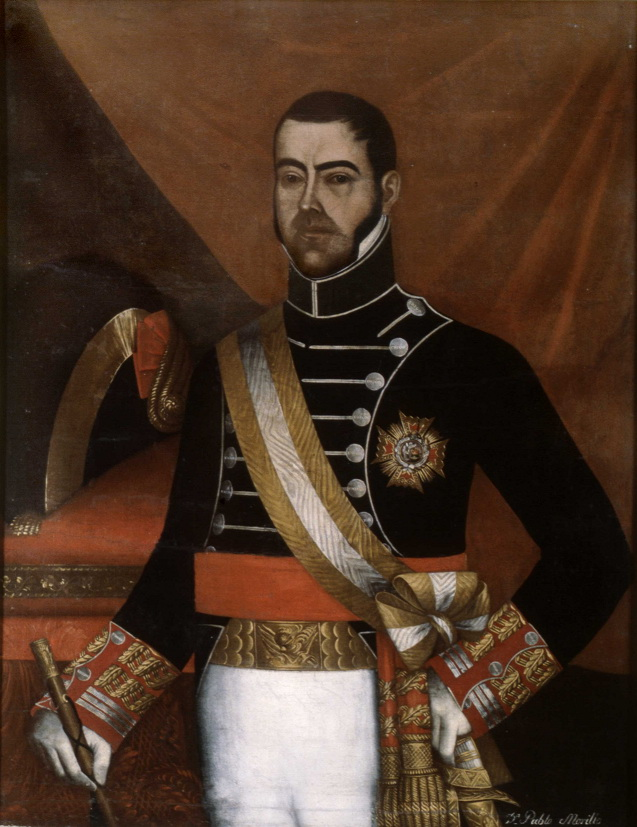 Portrait of Pablo Morillo, General of the Spanish Army